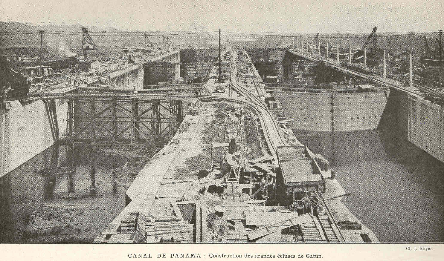 Subject: Panama Canal (Panama), Locks (Hydraulic engineering), Gatun Lake (Panama), Canals Geographic Subject: Panama--Gatun Lake Tag: Panama Canal